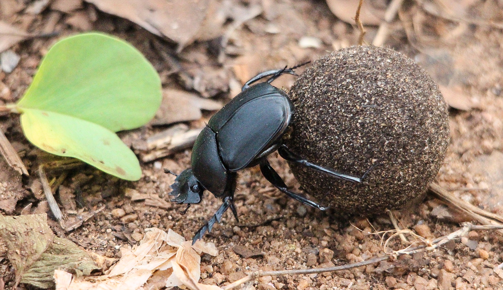 Dung beetle Sri Lanka